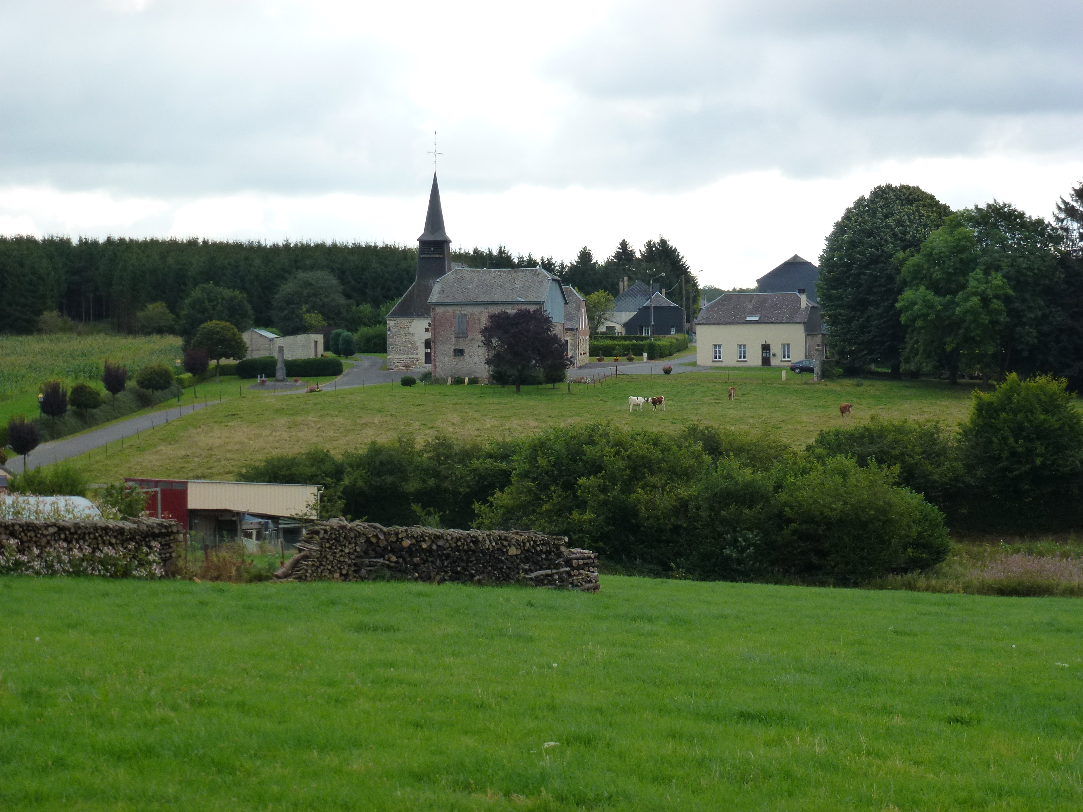 Brognon (Ardennes) vue du village